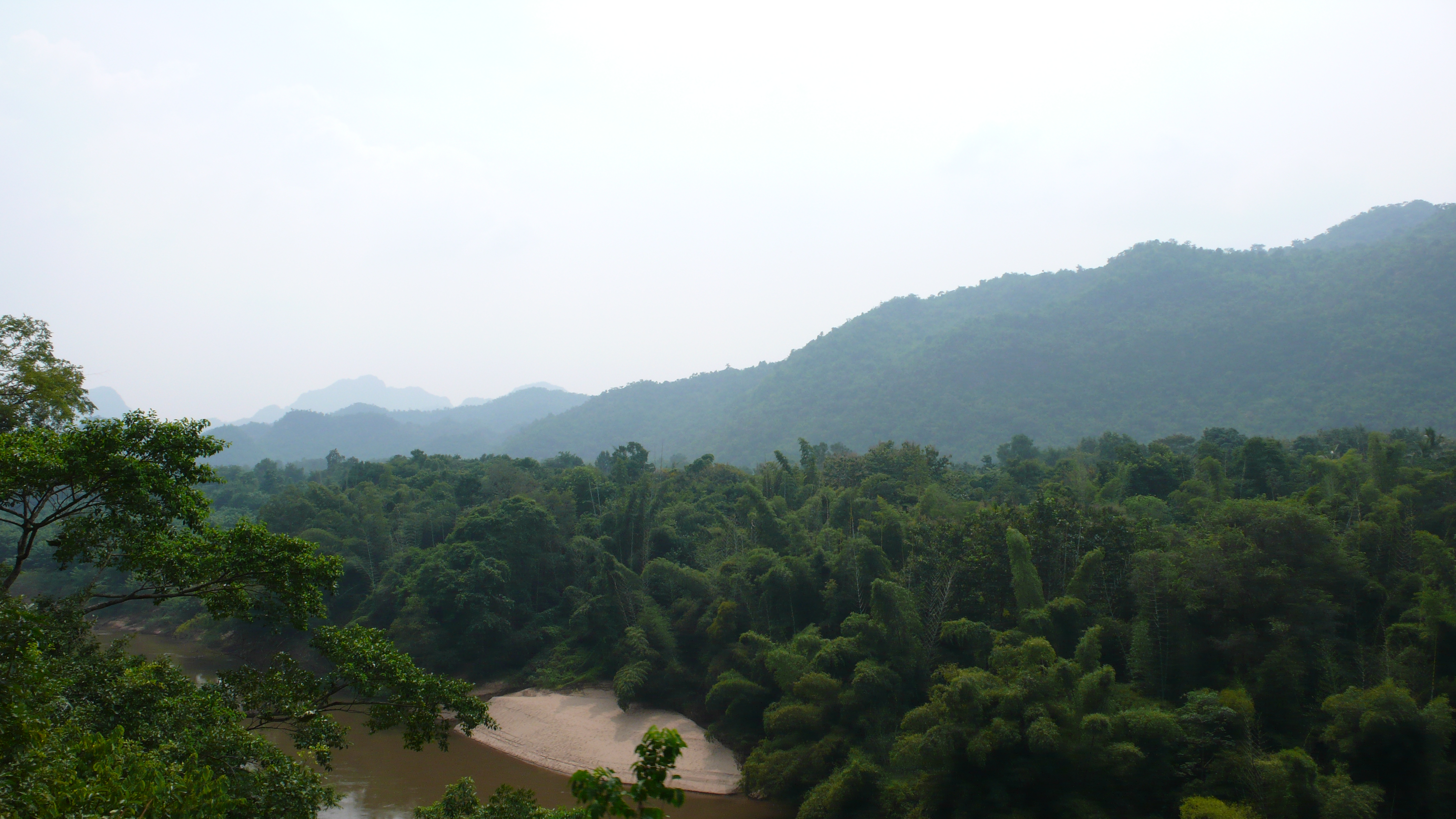 View from Death Railway over Kwai river, Kanchanaburi, Thailand.